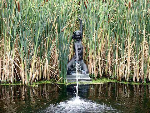 Description: Brooklyn Botanic Garden - Source: own work - Author: self, User:Stavenn